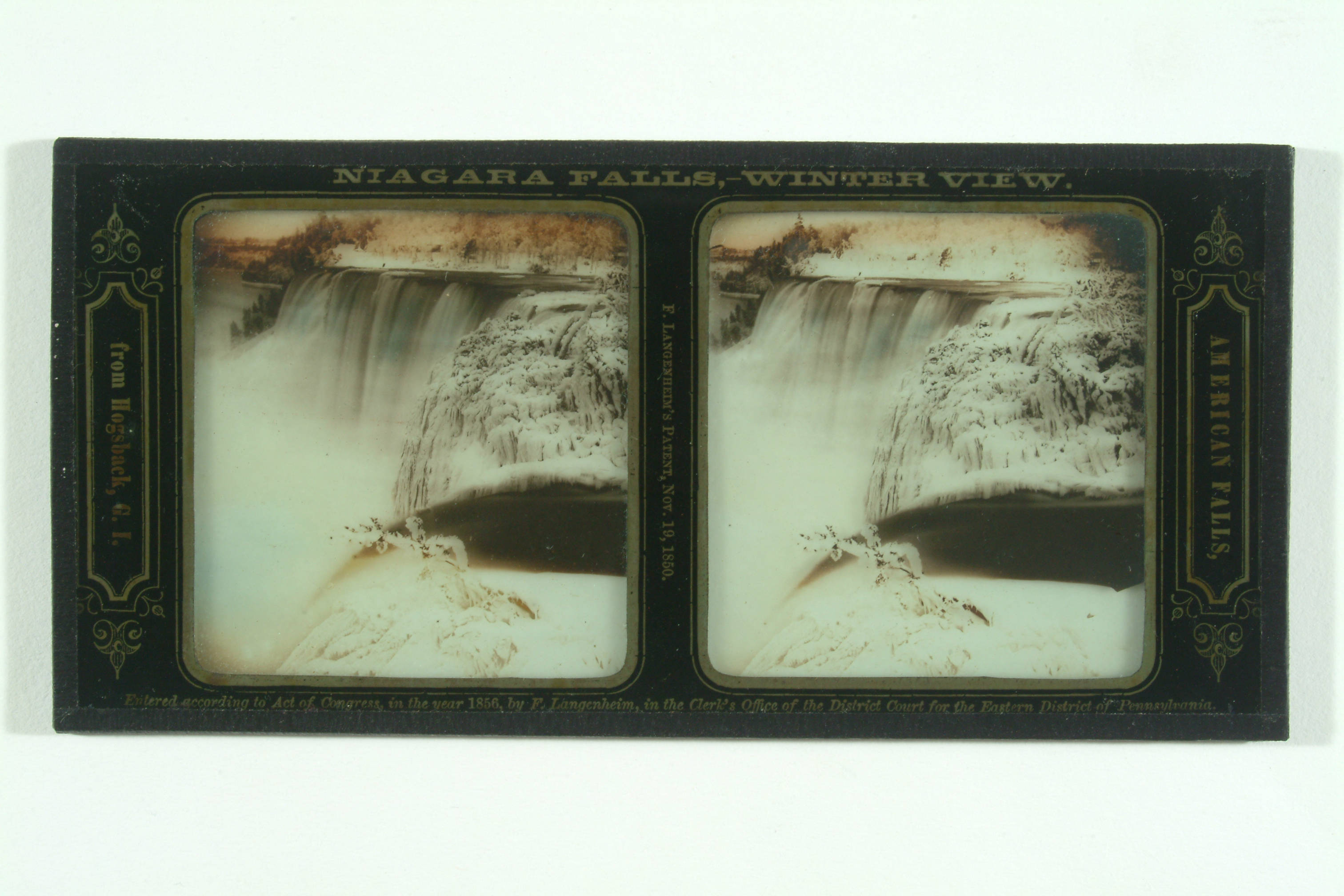 Niagara Falls, winter view : American Falls, from Hogsback, G.I. 1 glass stereograph : b&w ; 8 x 17 cm